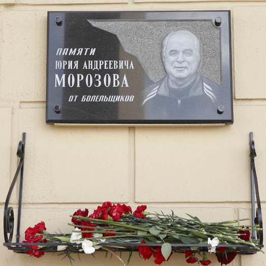 Plaque in memory of Saint Petersburg football coaching legend Yury Andreyevich Morozov